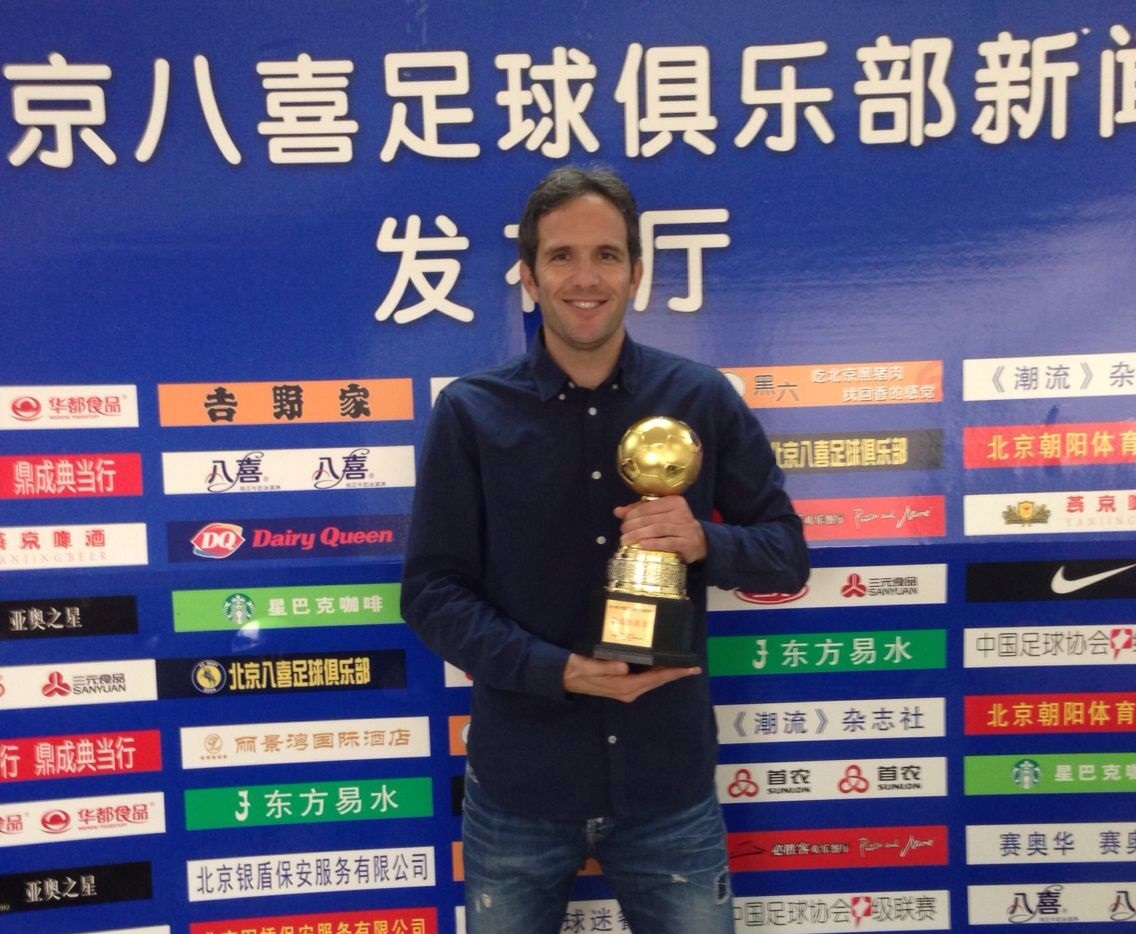 Tomic with his Coach of the Year award